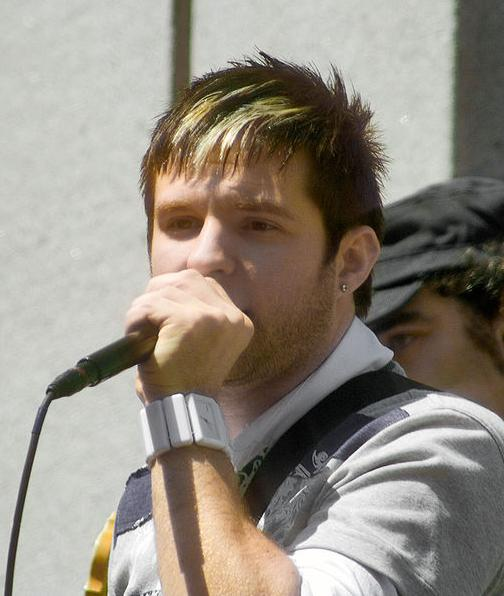 Blake Lewis on his hometown visit from American Idol on May 11 2007 in Downtown Seattle, Washington. Photo taken by User:Darkain, Vincent E. Milum Jr. of